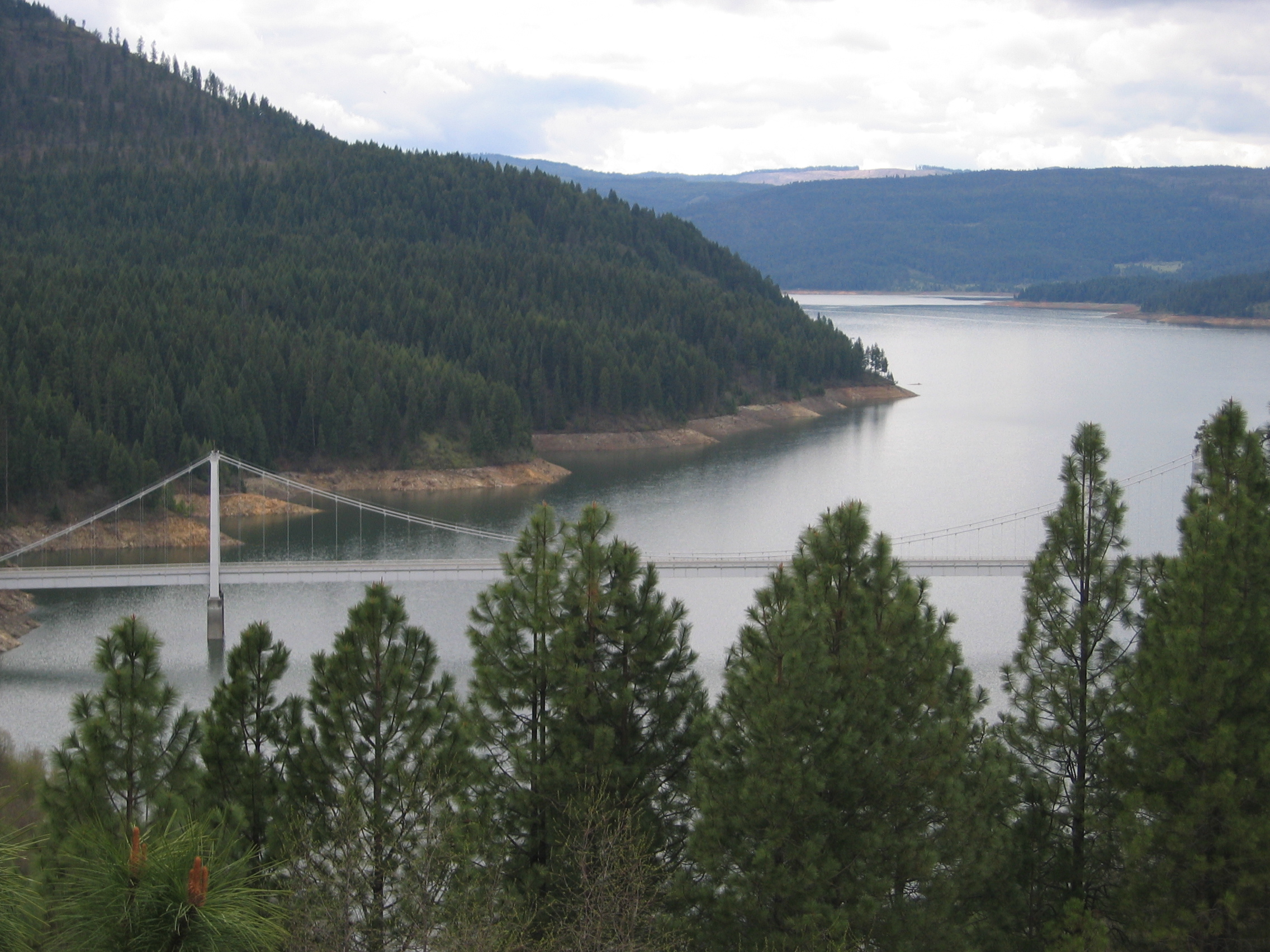 Dent Bridge from South Shore of Dworshak Reservoir